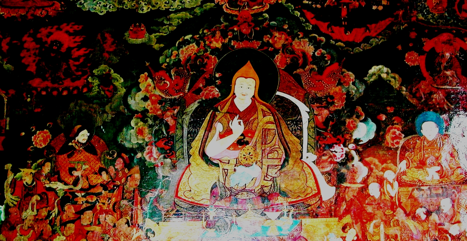 This mural in the main temple at Samye Monastery in Tibet probably dates from the 17th Century. In the centre is the Fifth Dalai Lama (1617-1682), on the left his Mongolian military commander, Gushri Khan (1582-1655) of the Oirat Mongol tribe and on the right is his Chagdzo, Desi Sonam Chopel, aka until 1642 Sonam Rapten.